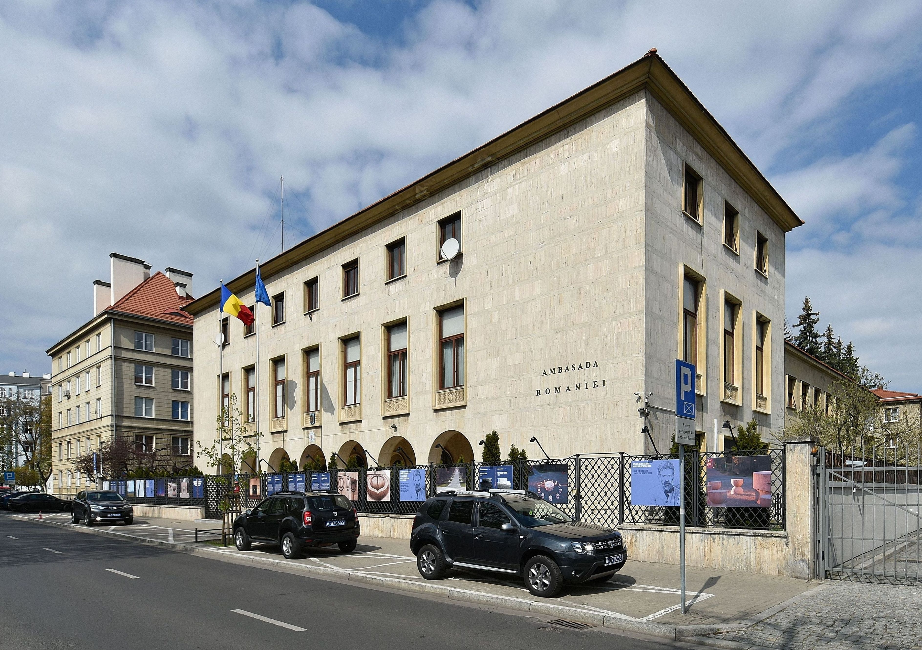 Embassy of Romania at 10 Chopin Street in Warsaw